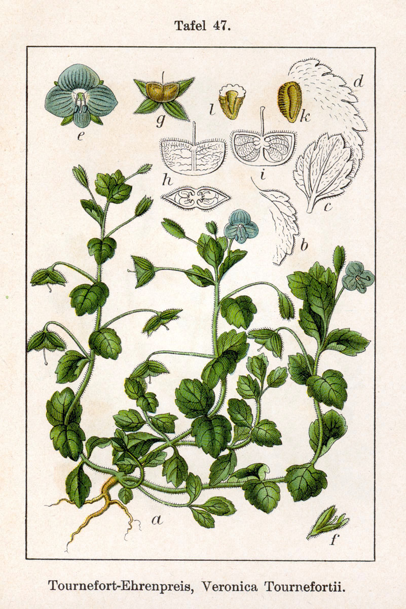 Veronica persica Poir., syn. Veronica tournefortii C. C. Gmel. non Vill. 1779, nom. illeg. Original Description Tournefort-Ehrenpreis, Veronica tournefortii